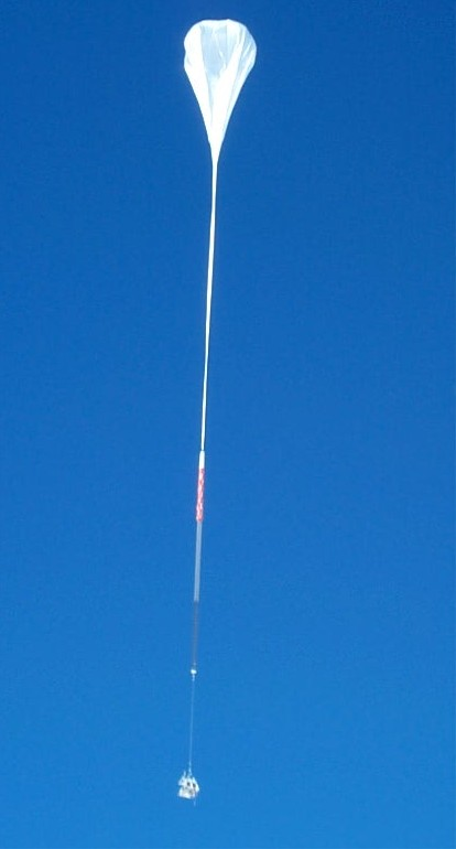 Launch of MAXIS balloon at McMurdo Station, Antarctica. The MAXIS balloon was terminated on January 30, 2000 at 22:13 UT after a successful 450 hour flight. The balloon was cut-down over Victoria Land, approximately 390 nautical miles from McMurdo Station. On February 3, 2000 the recovery team (Steven Peterzen and Robyn Millan) reached the payload via Twin Otter and found the gondola in relatively good condition considering it had come to a stop upside down following landing. The data vault containing the hard drive, the UW x-ray imagers, the BGO detector, and three of the four sun-sensor arrays were among the components successfully recovered.